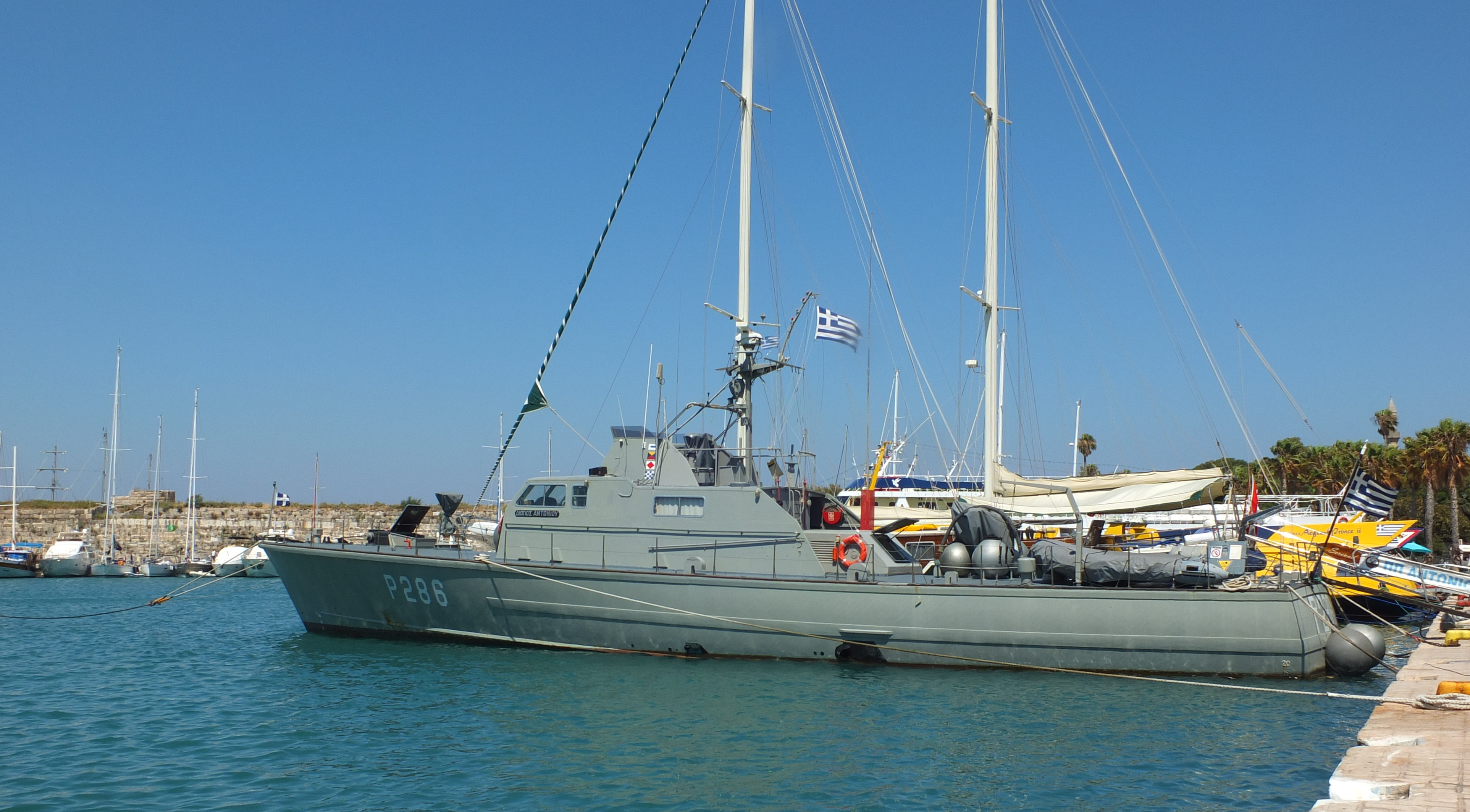 Patrol boat Diopos Antoniou P 286 of the Greek Navy at Kos.